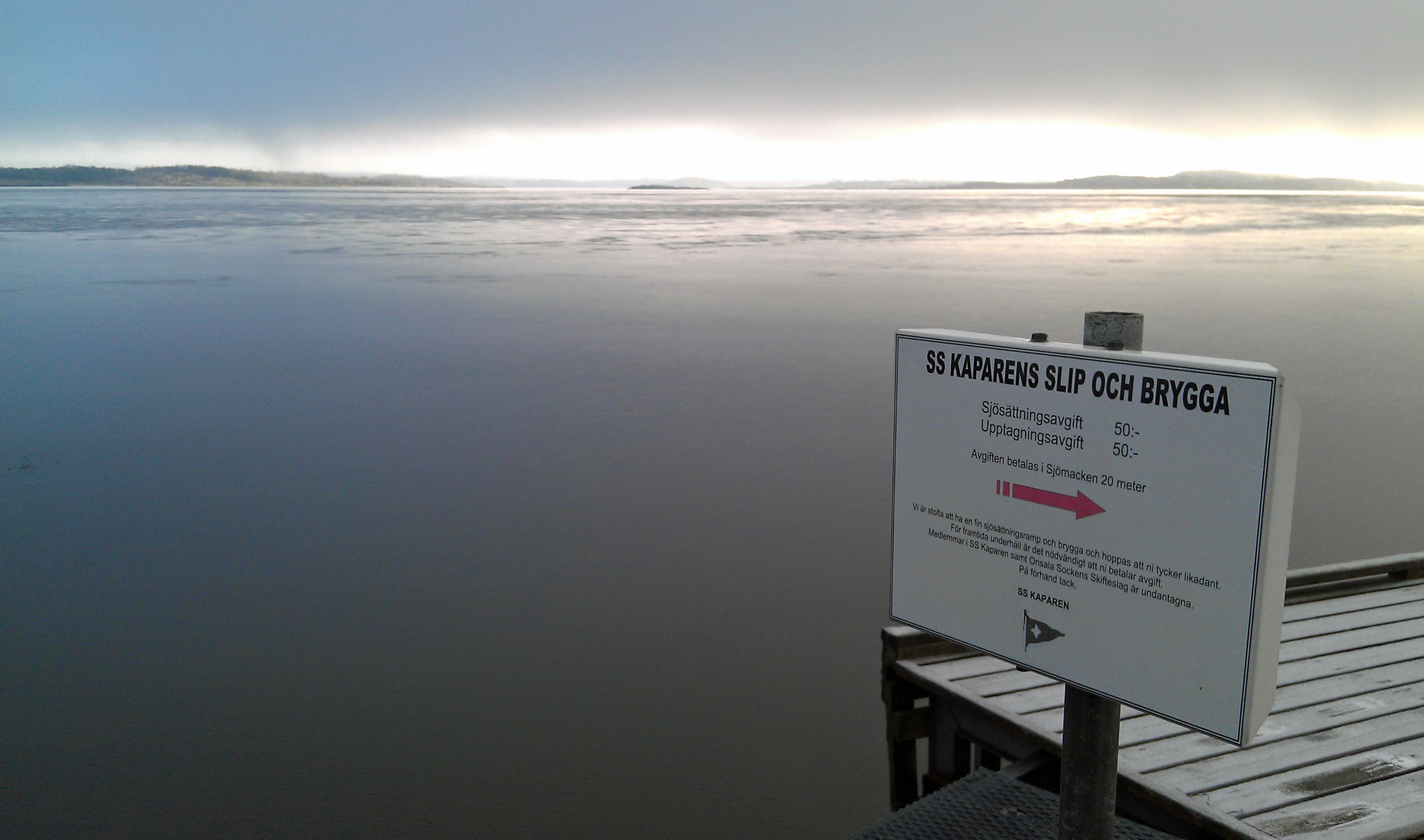 Kungsbackafjorden (Kungsbacka Fjord), as seen from Gottskär in Onsala, in December 2011.